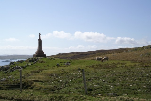 Nesting War Memorial At Brettabister; surely one of the most remote war memorials in Britain?Mainland, Shetland.